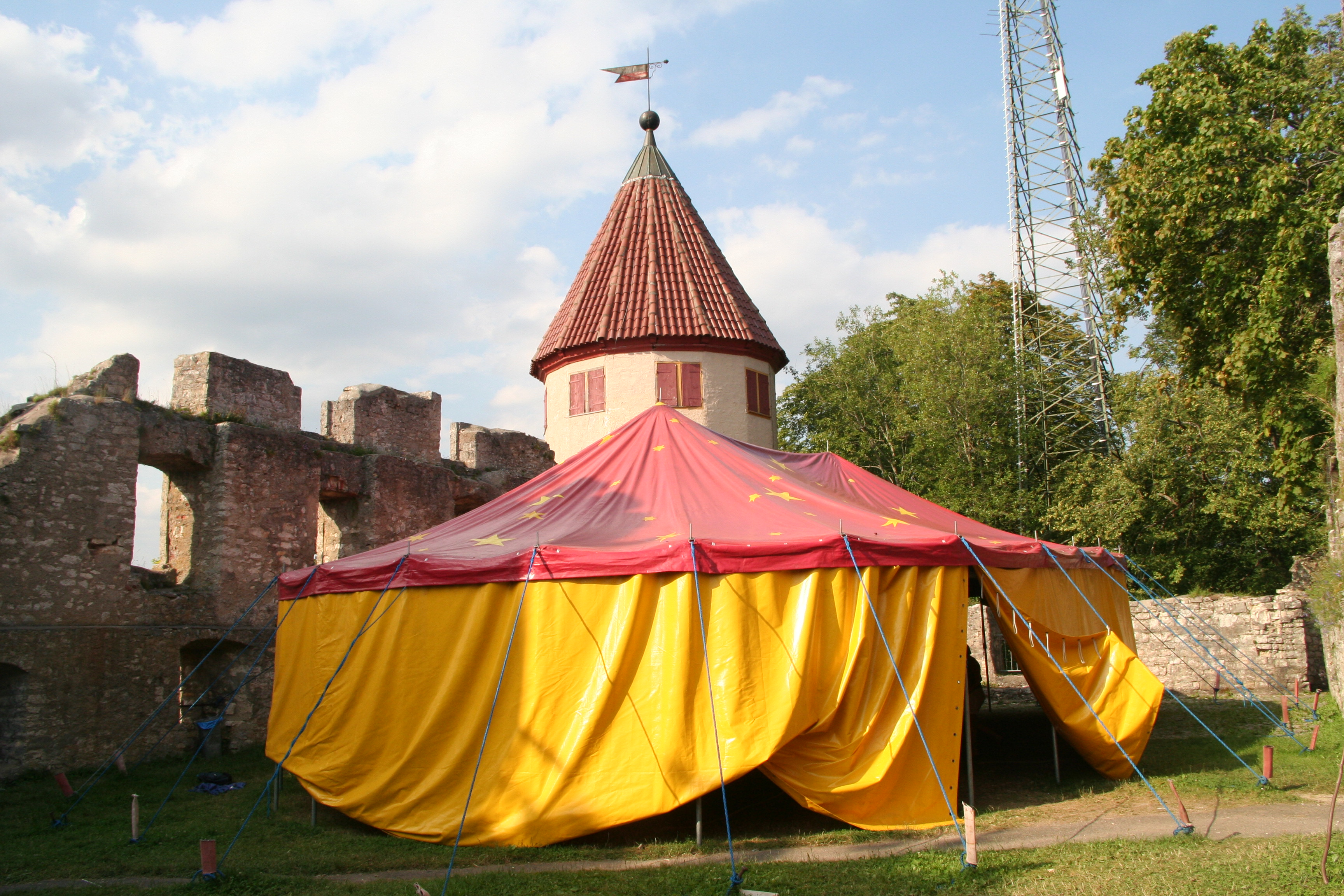 Kinderprogramm